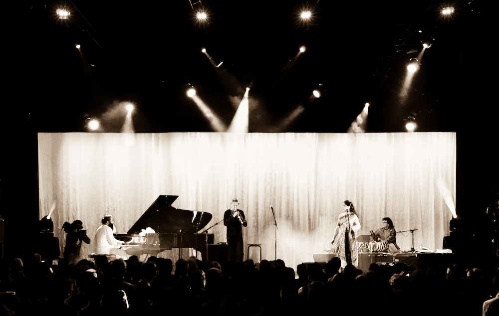 Left to right- Malcolm Braff,Eric Truffaz,Indrani Mukherjee,Apurba Mukherjee, Paleo Festival,Switzerland.